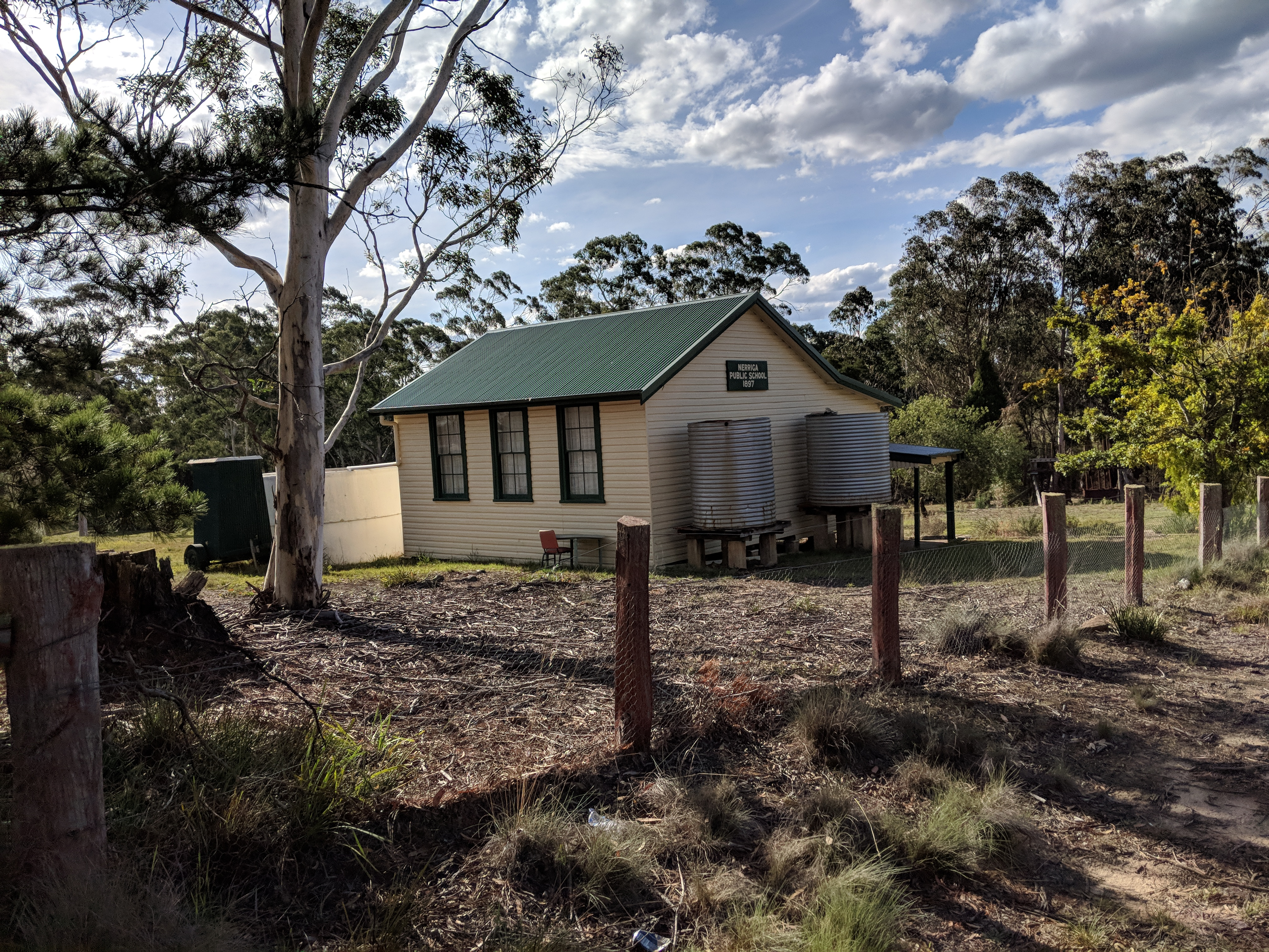 Nerriga Public School, New South Wales